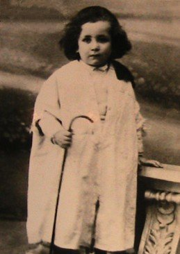 Mohamed_Fadhel_Ben_Achour_when_child